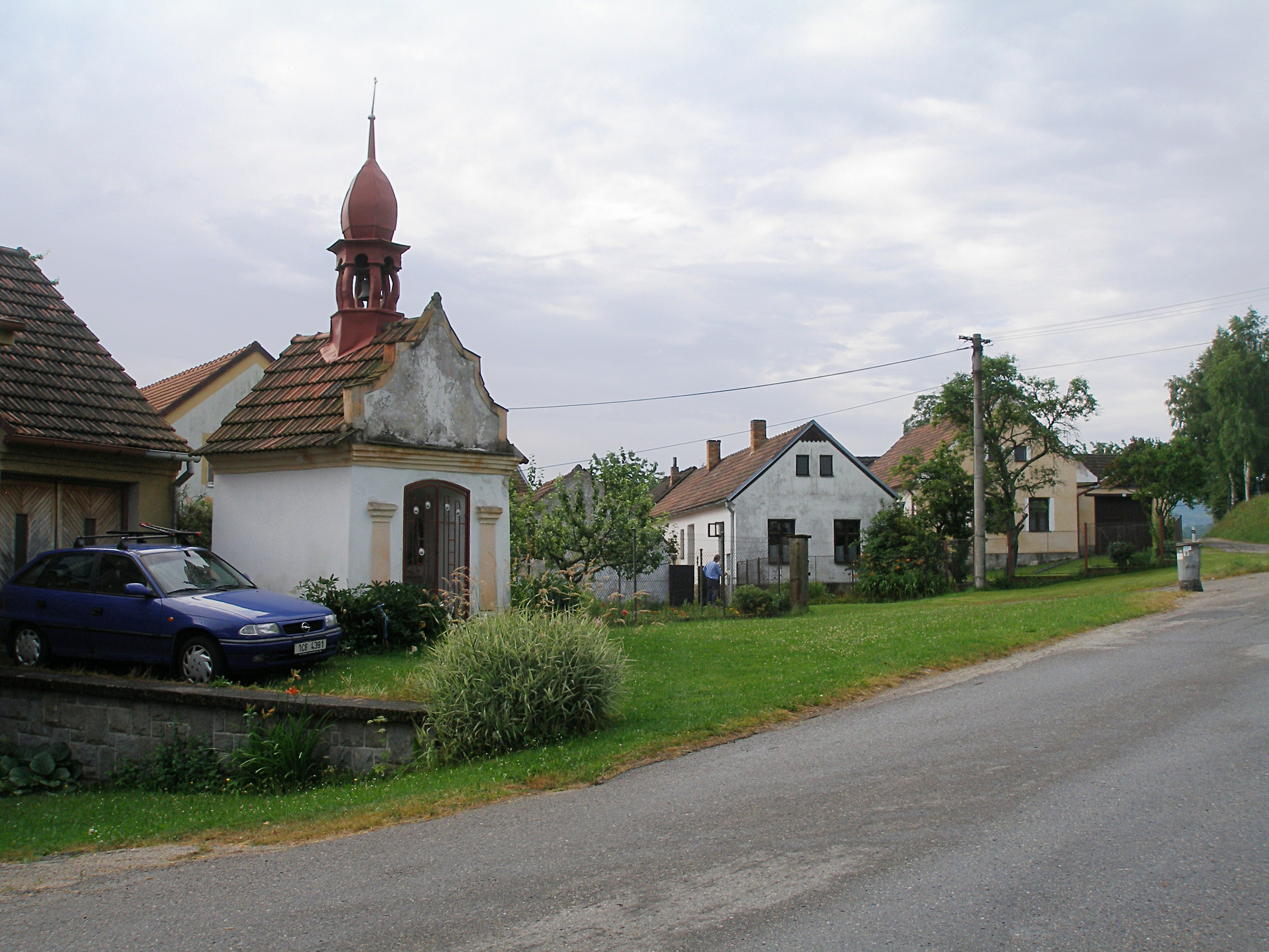 Záluží (part of Slavče) - the chapel on the square